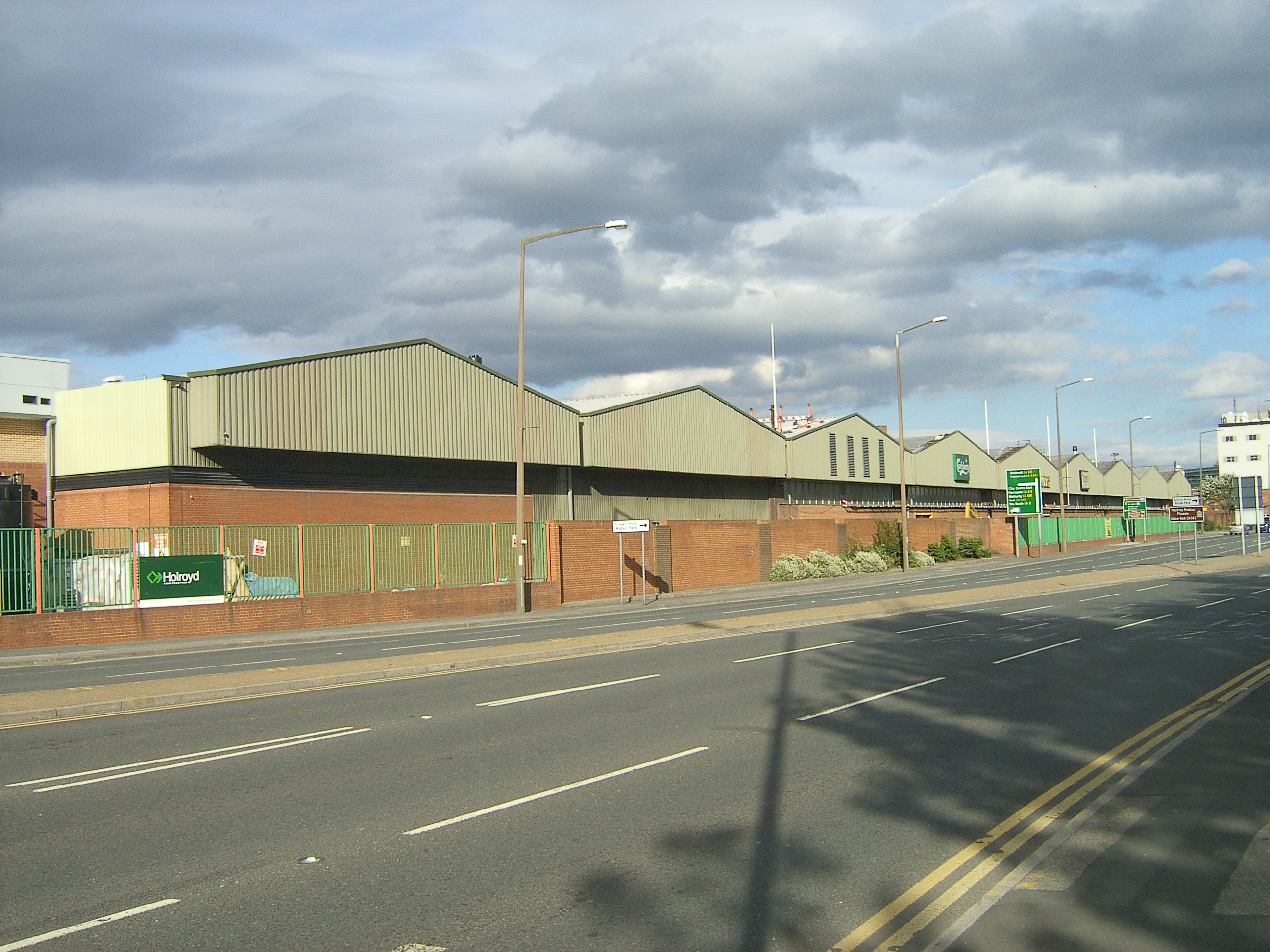 Tetley's Brewery, Leeds. Photo taken by User:Gunnar Larsson.